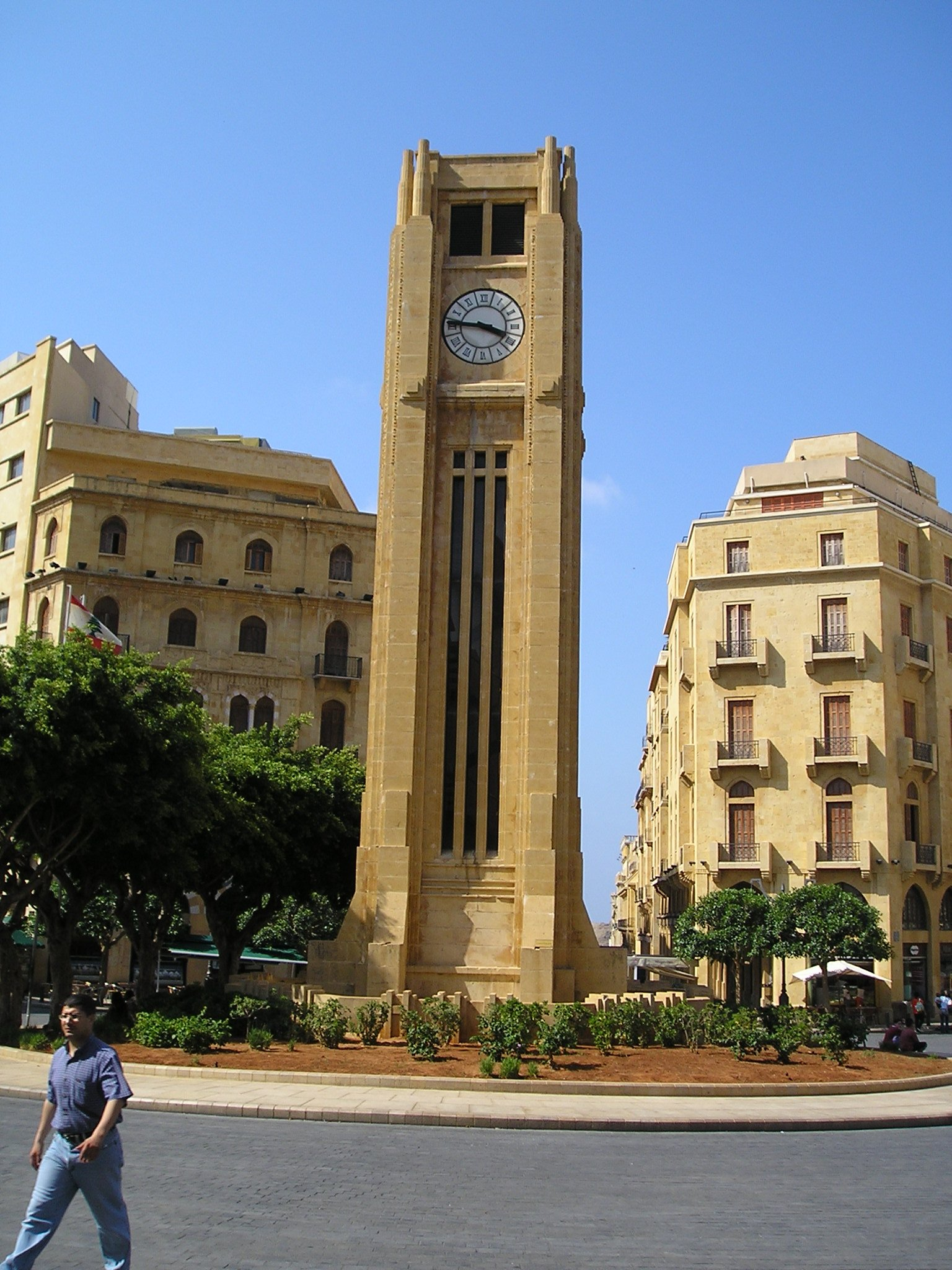 Beirut, Lebanon - Clocktower at the Place d'Étoile a.k.a. Nejemah square